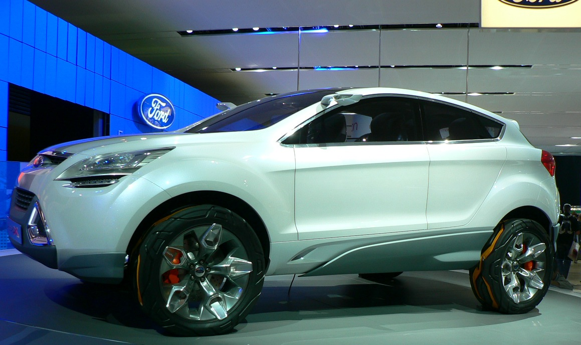 Ford Iosis X at the 2006 Paris Motor Show